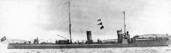 The Ottoman destroyer Muavenet-i Milliye.